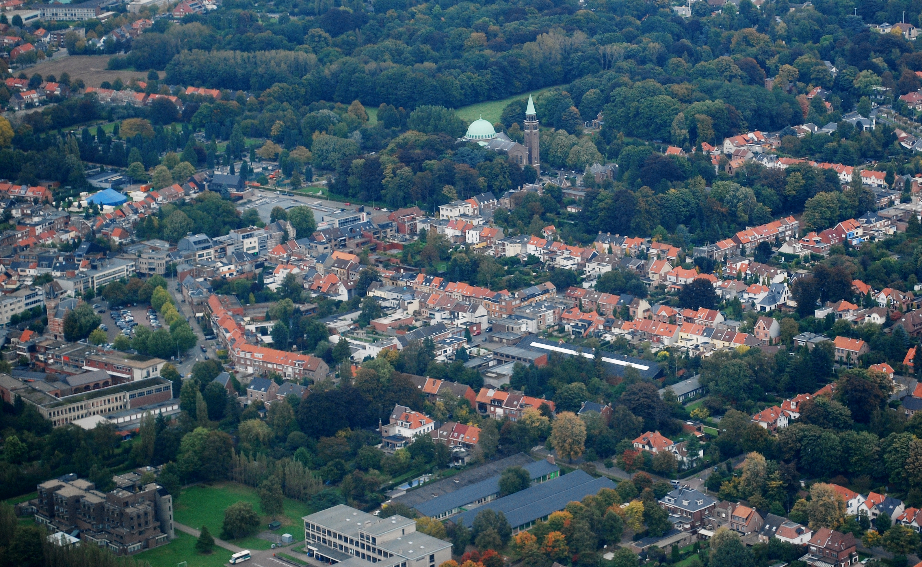 Aerial photograph of Edegem, Belgium. The triangular village centre is on the left, with the red tower of the community hall. Nearer to the middle is the basilica with its distinctive green roofs. Nikon D60 f=48mm f/6.3 ISO 200 1/160s. Processed using GIMP 2.6.11: rotate, frame, enhance contrast, sharpen